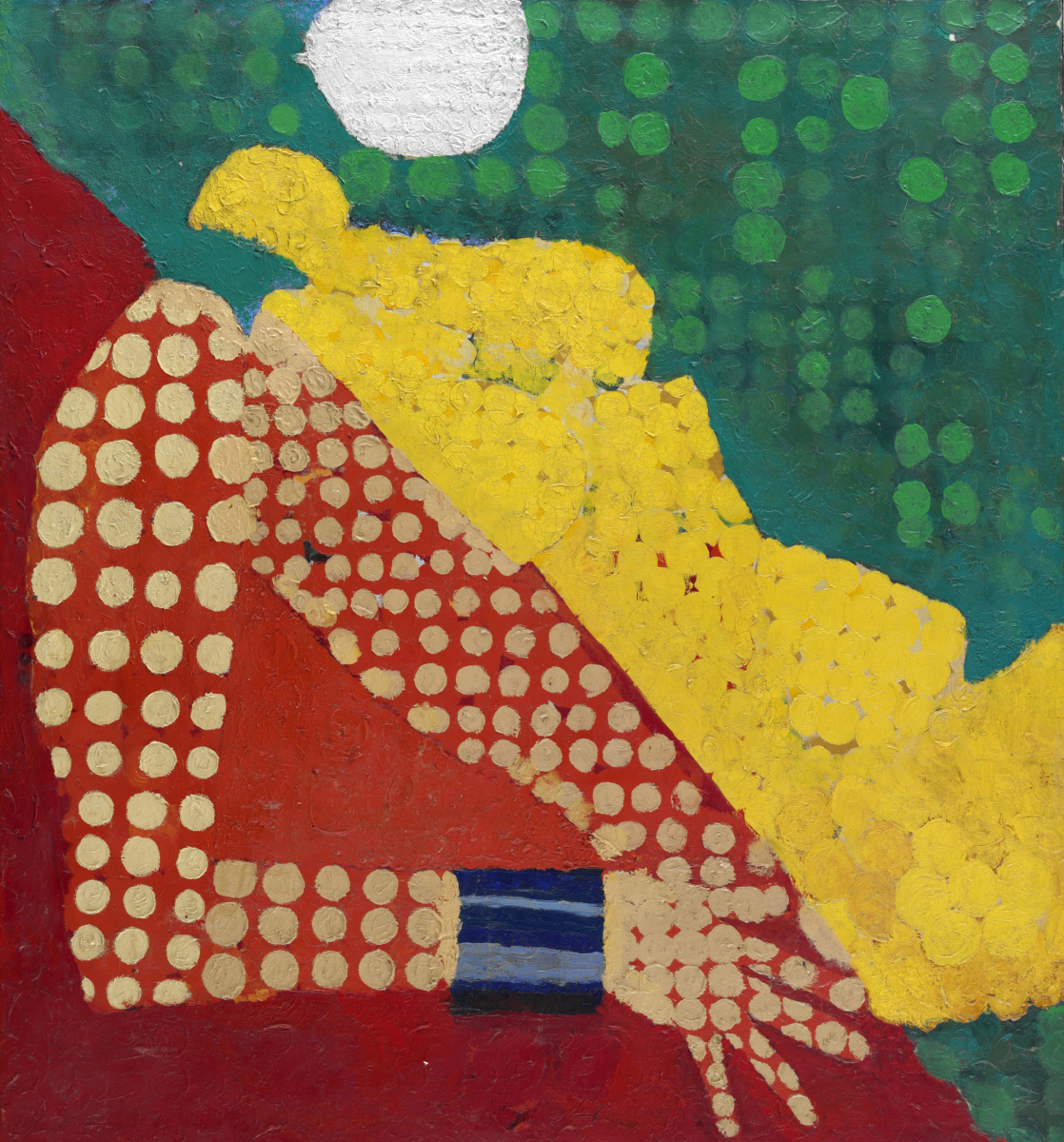 Blue bracelet, oil on canvas, 110 x 100 cm (1968)